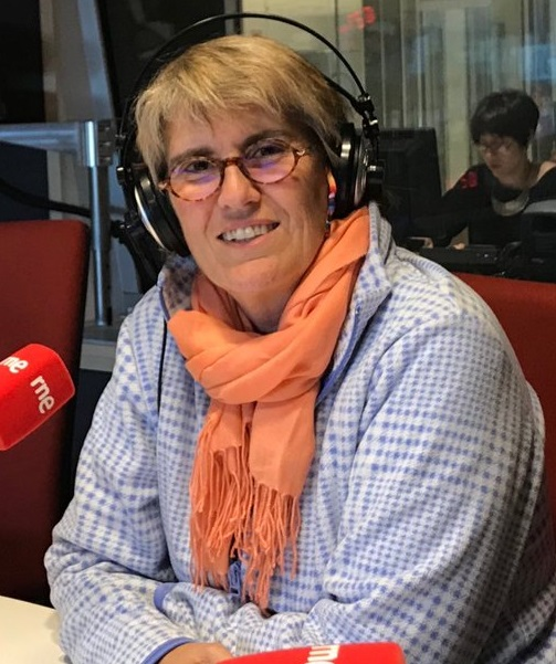 Paloma del Río working